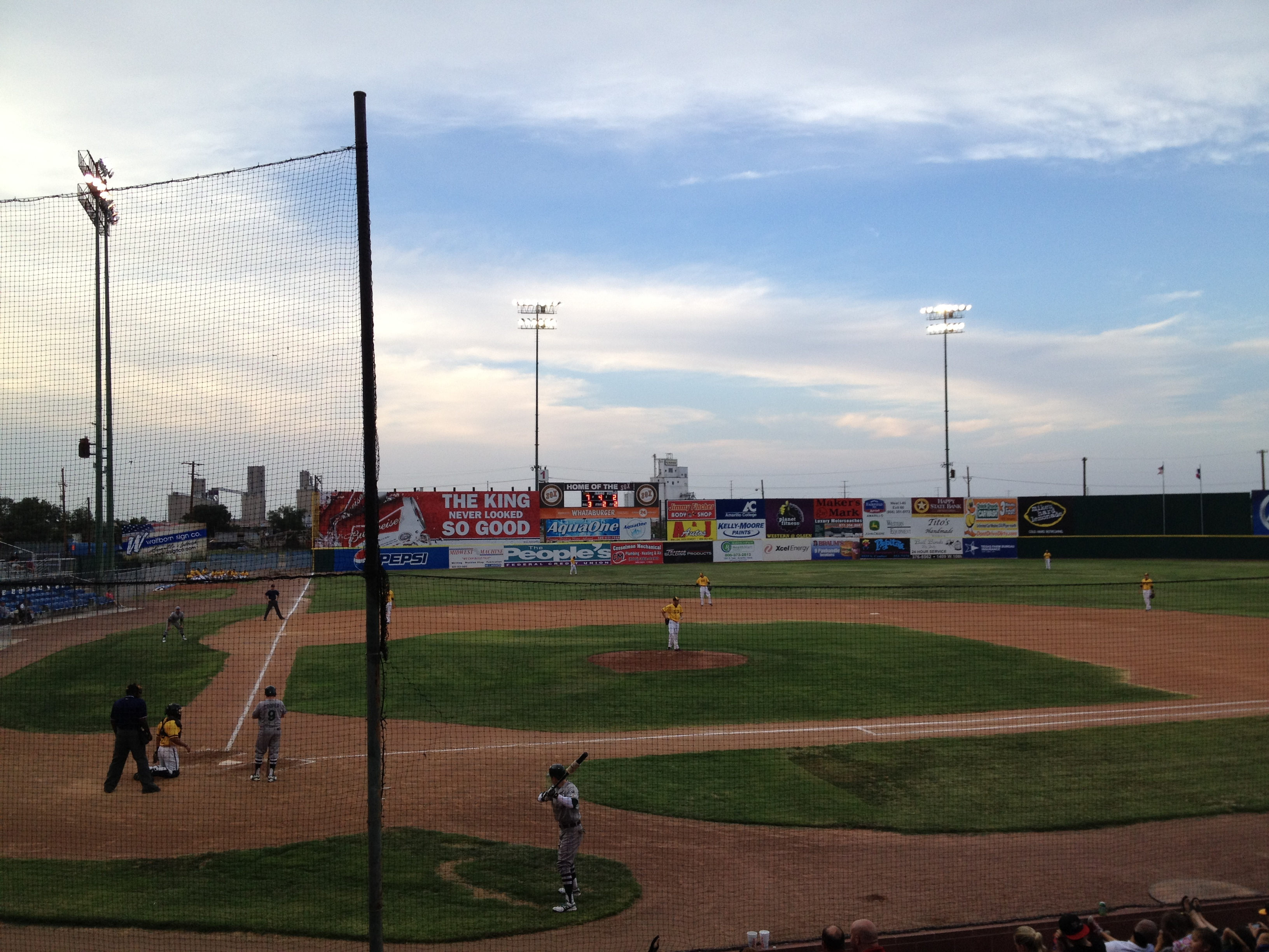 The Amarillo Sox